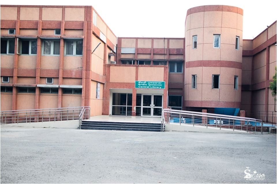 Library of SLIET , Longowal